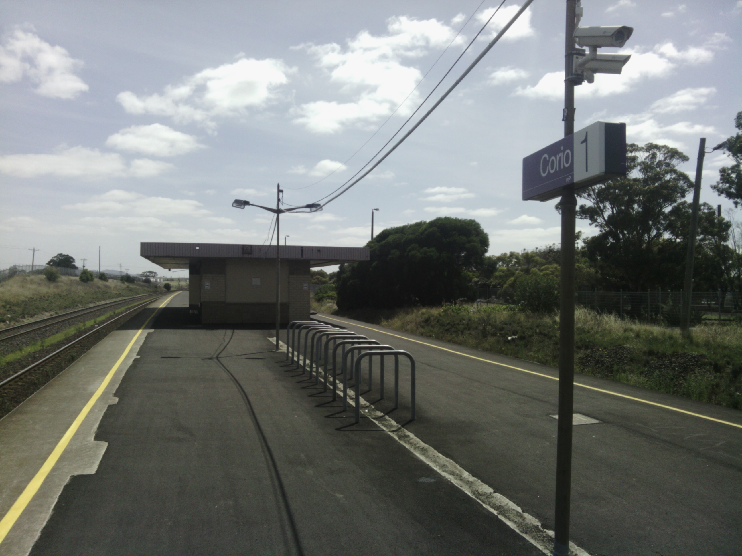 Platform at Corio railway station